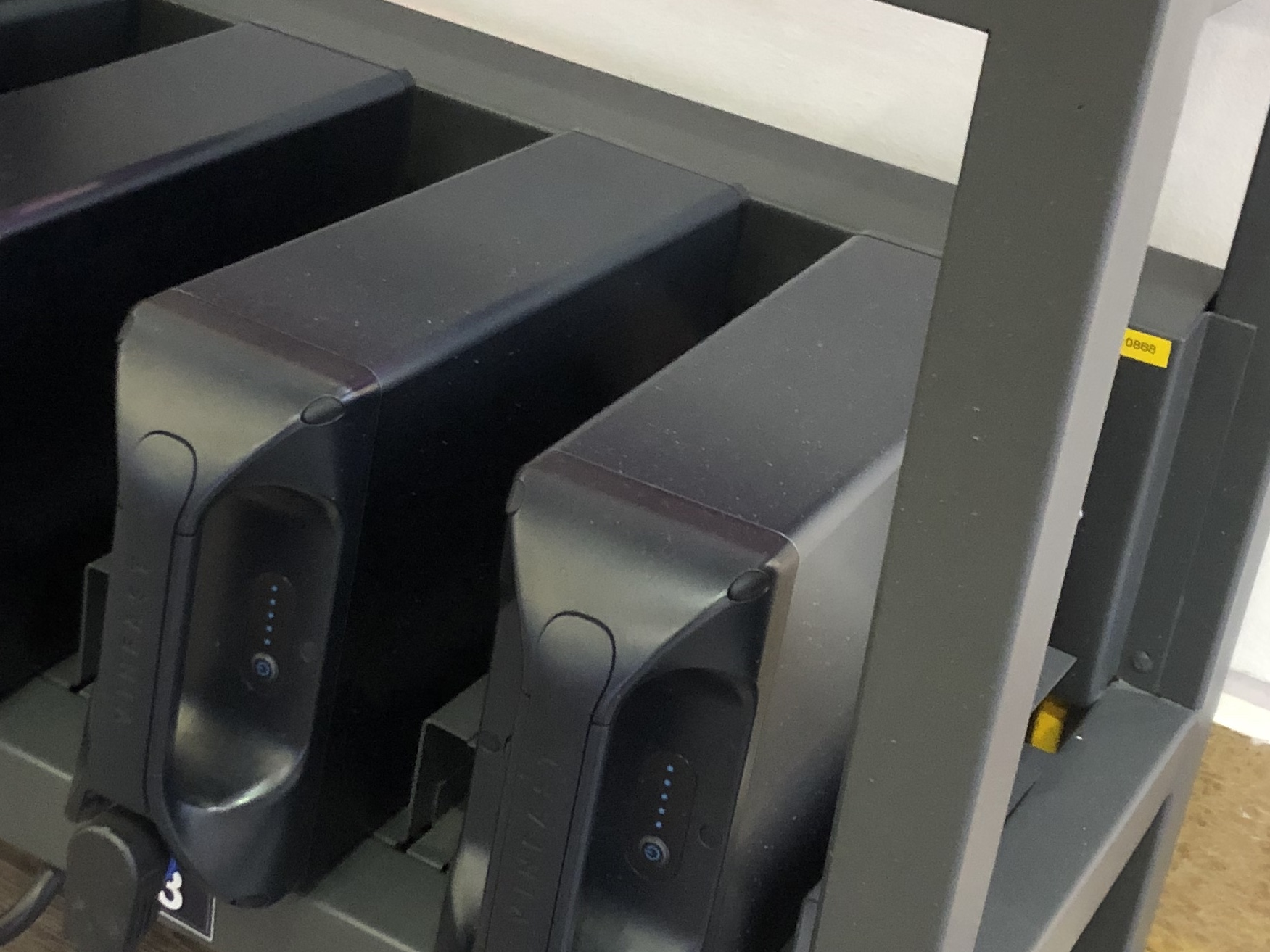 VinFast lithium ion battery For Klara S, Ludo, IMPES Electric scooter